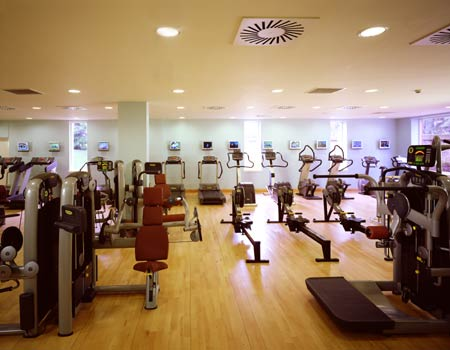 inside the bac